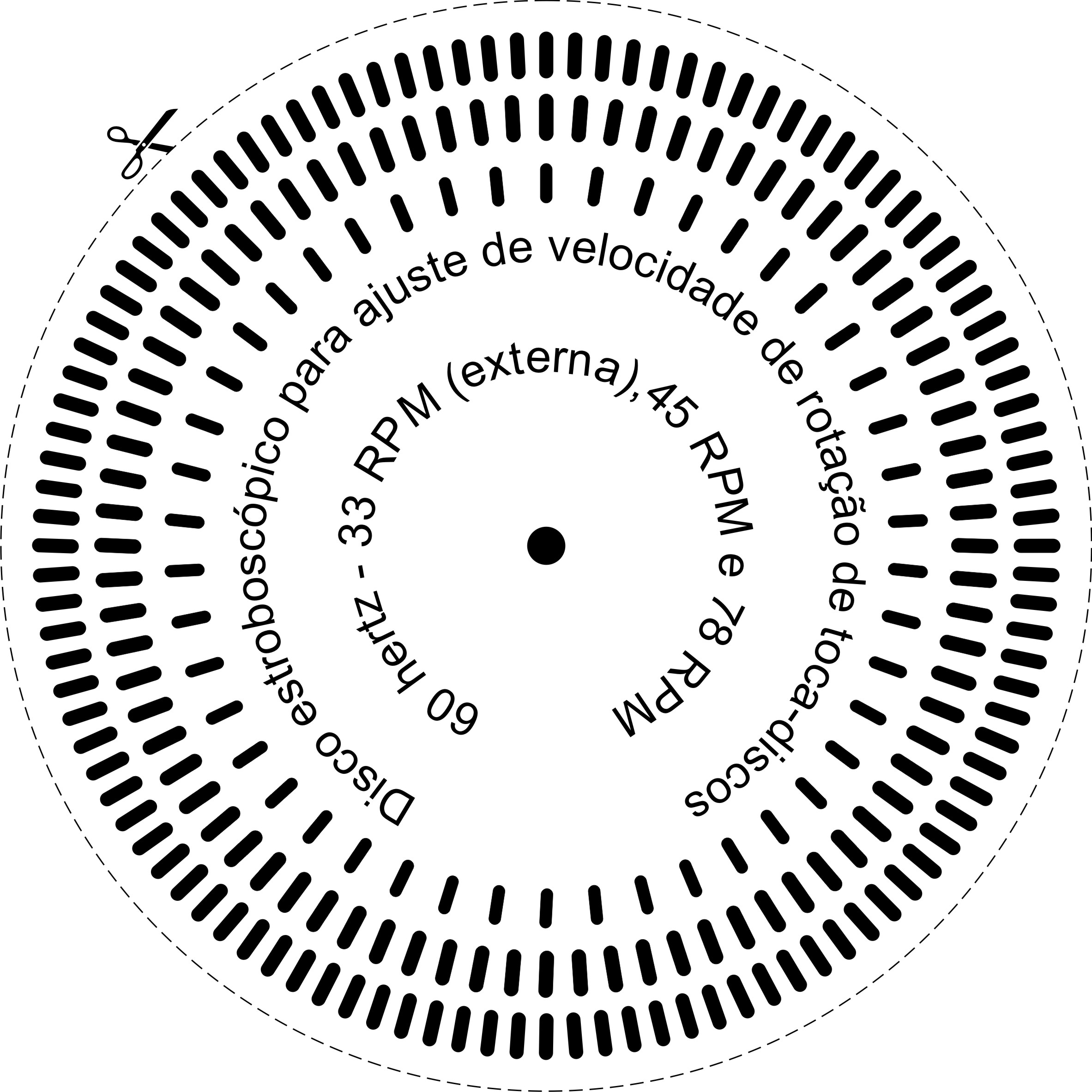 Stroboscopic disc for turntable rotation adjustment